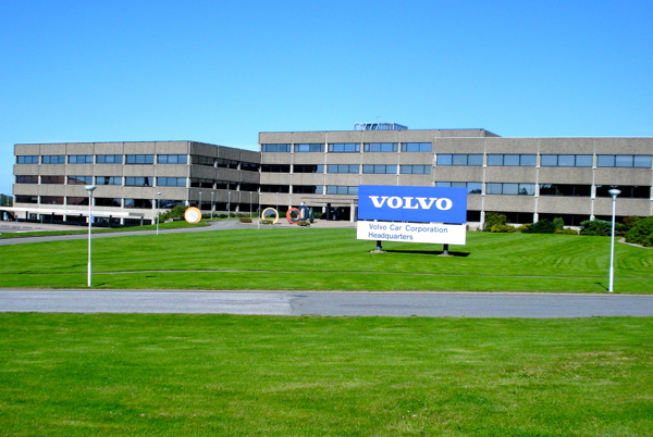 Headquarters of Volvo Car Corporation in Torslanda, Göteborg (Gothenburg) built in the late 1960s